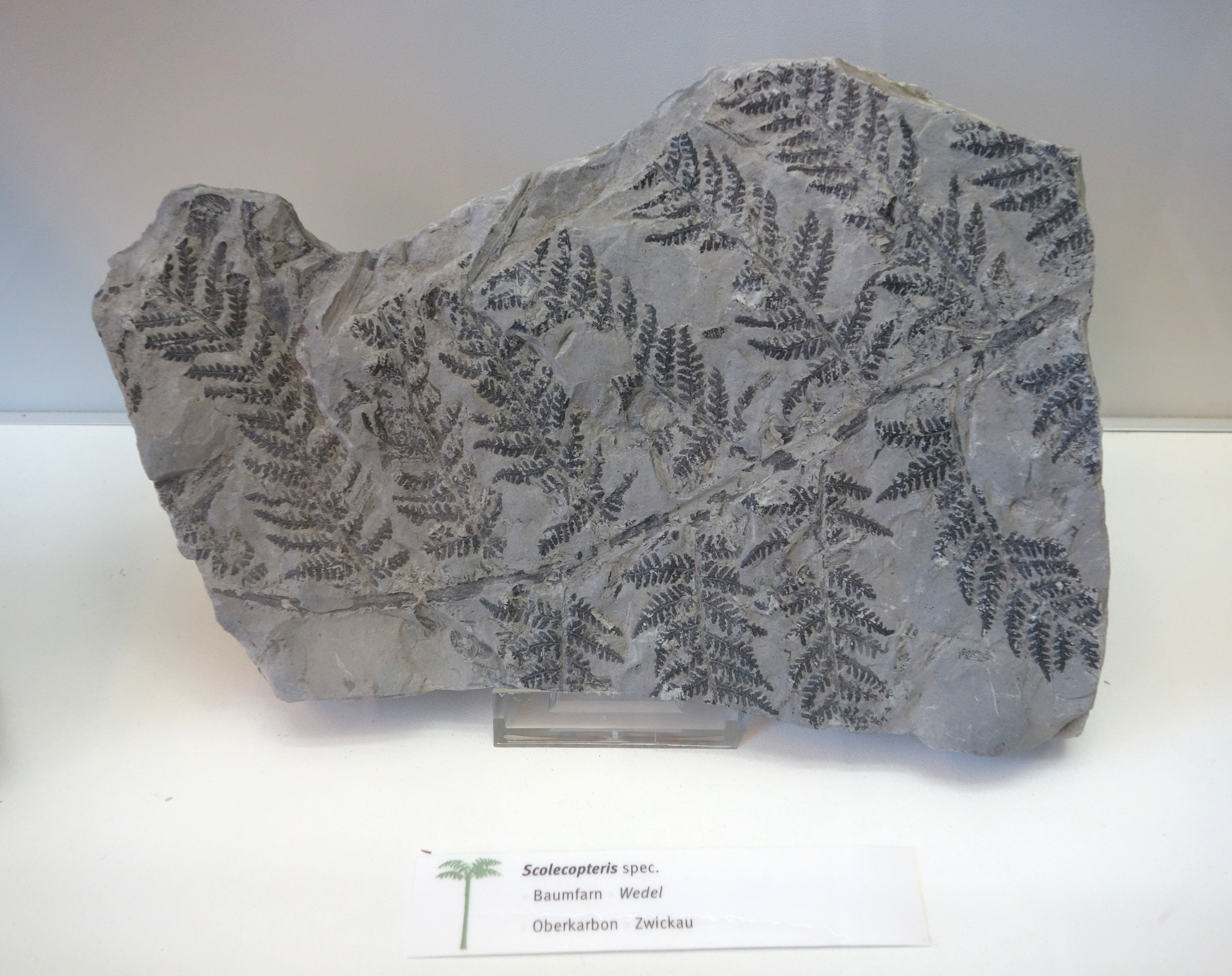 Fossil specimen in the Botanischer Garten, Dresden, Germany. Photography was permitted in the botanical garden without restriction.